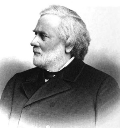 William A. Sackett (New York Congressman)